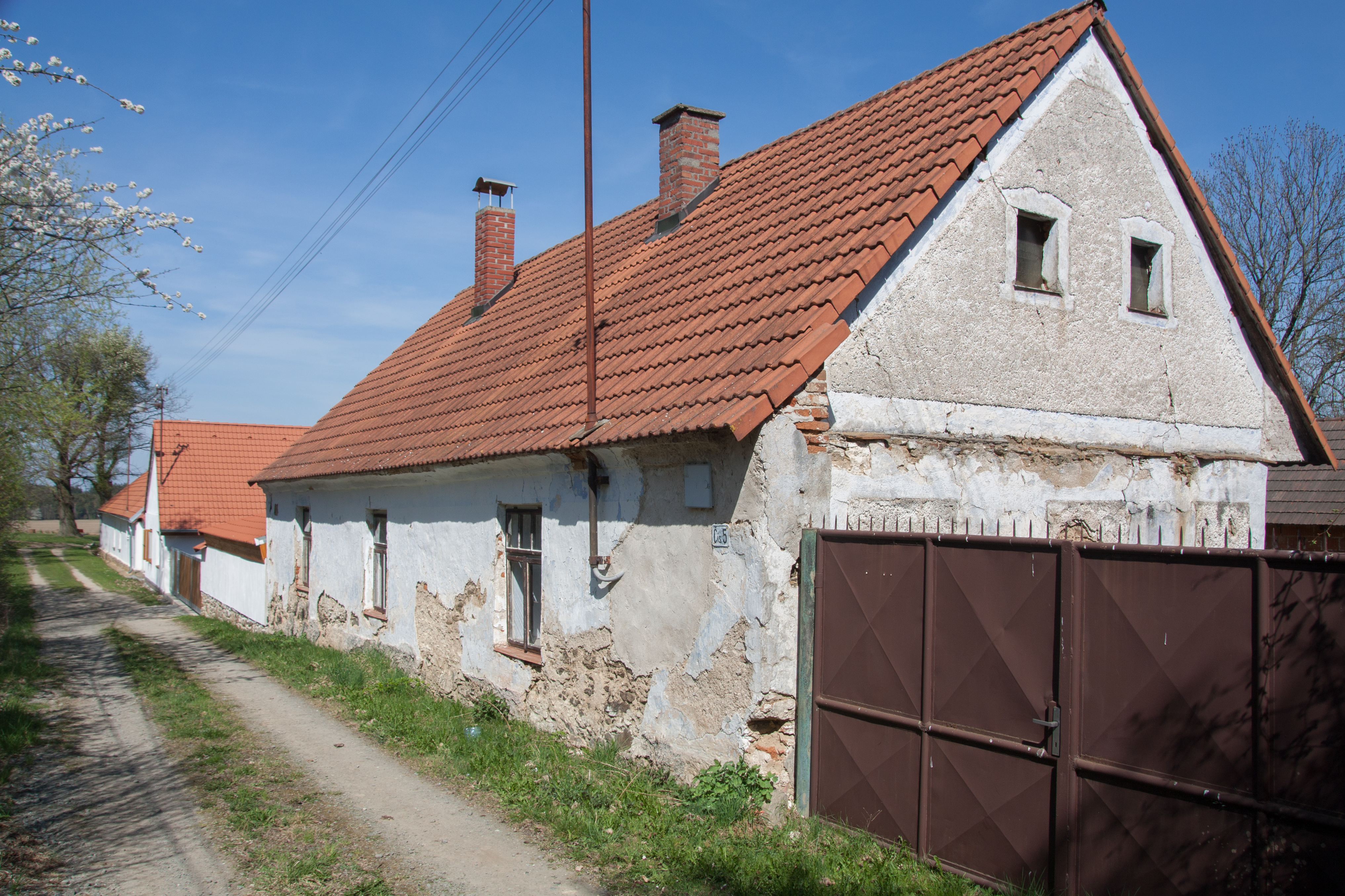 House in municipality Temešvár, Tábor District, South Bohemian Region, Czechia